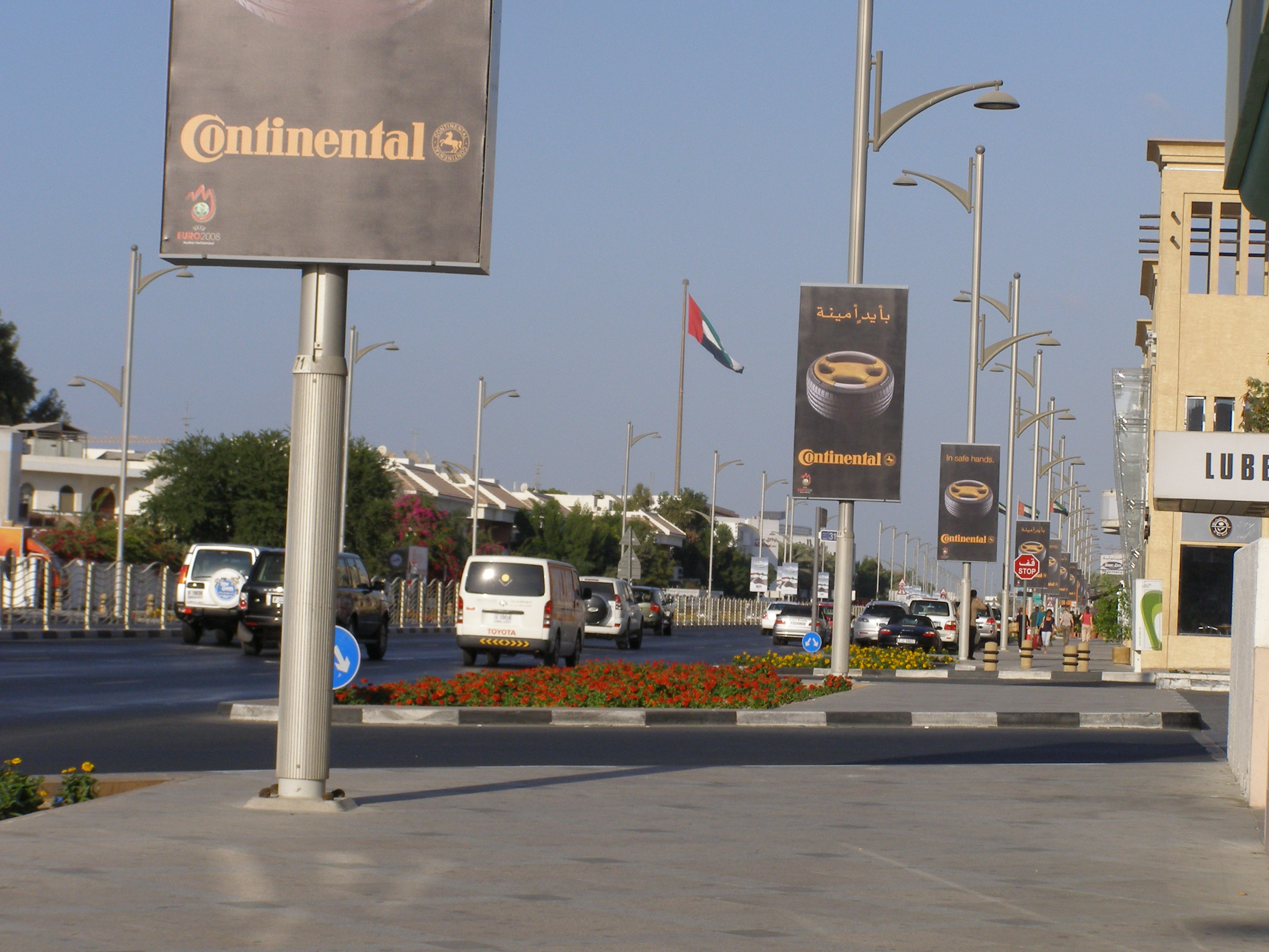 Beach Road Dubai in the Afternoon